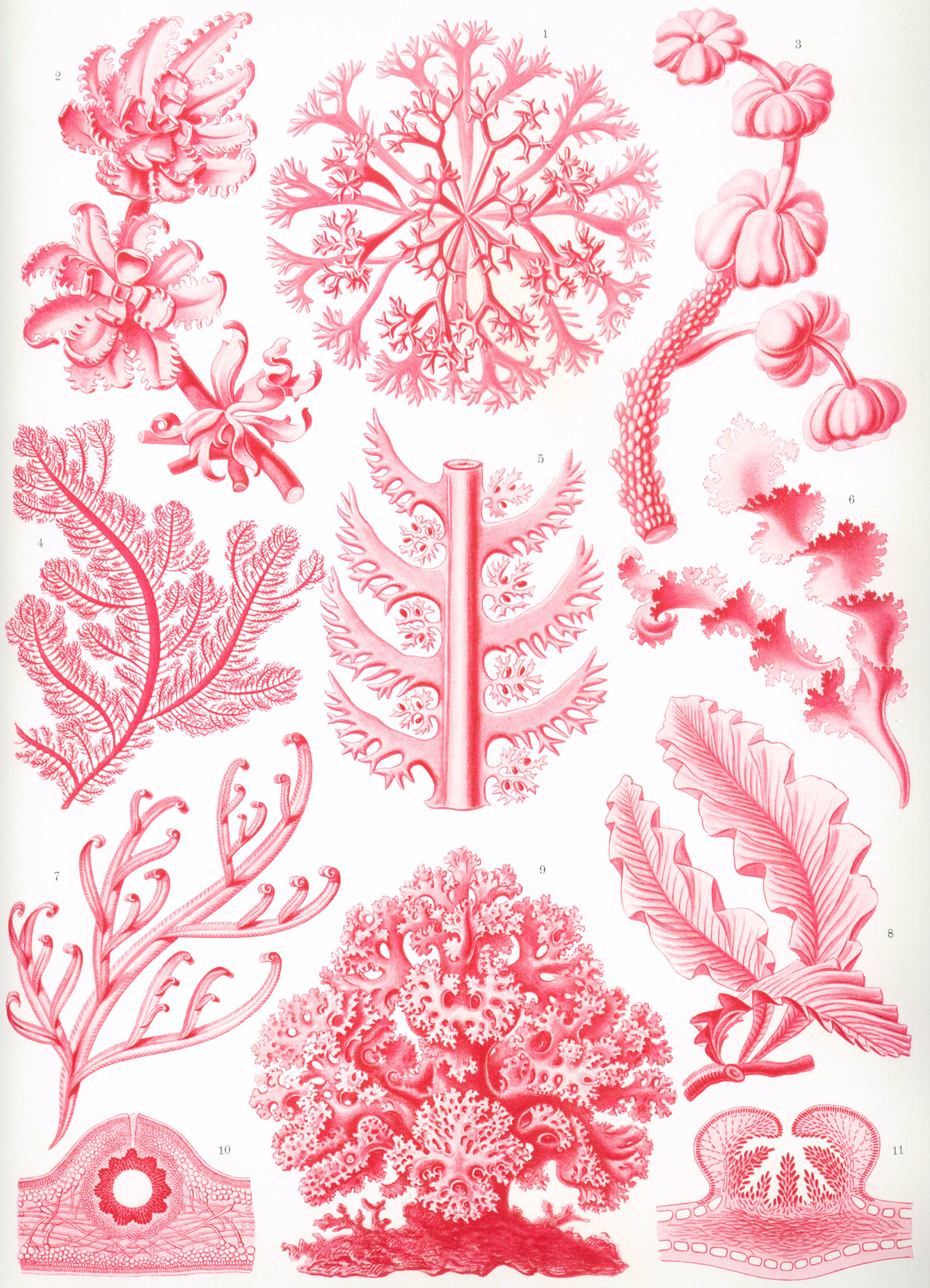 C. crispus: Irish Moss